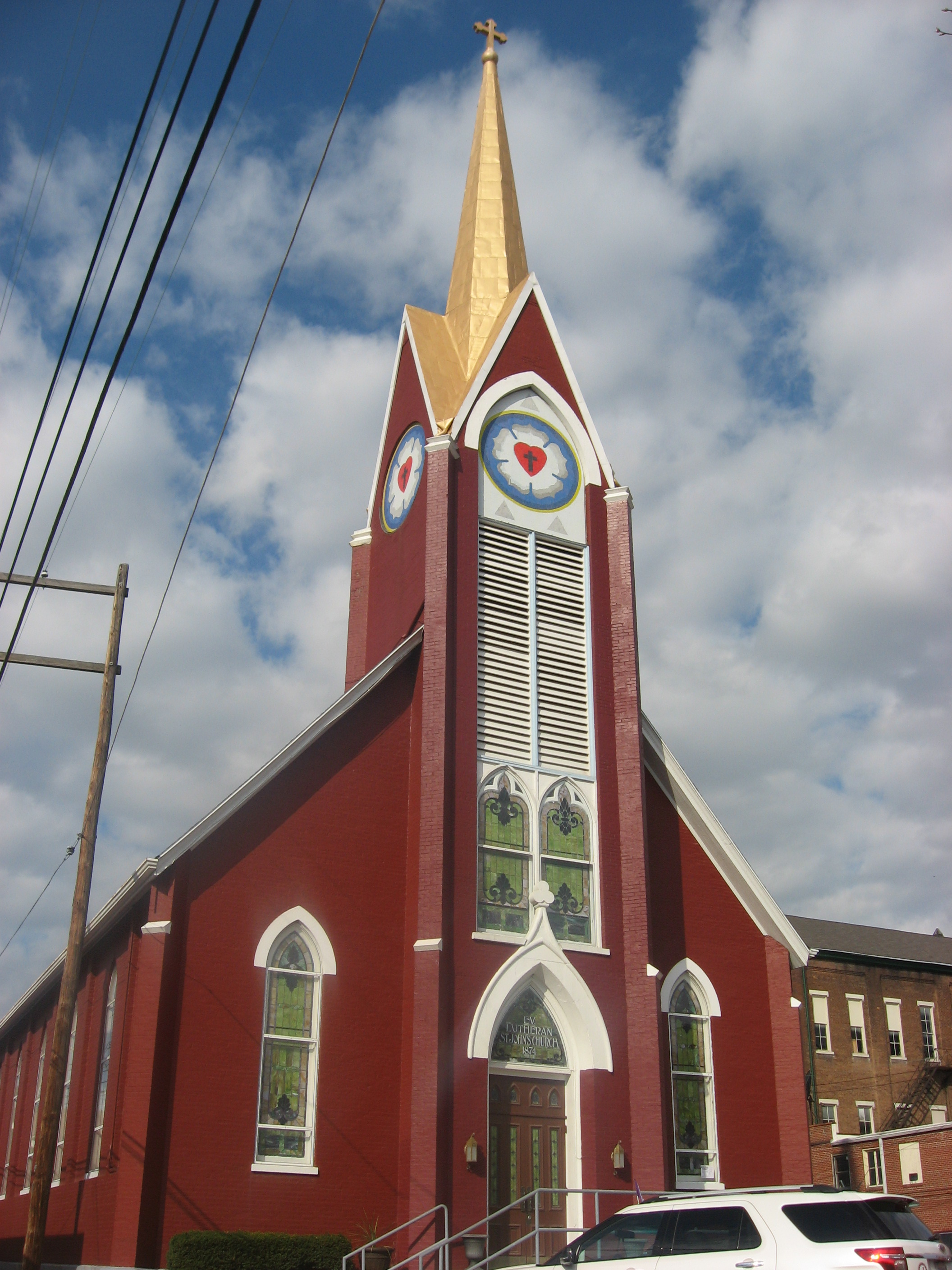 Front and southern side of St. John's Evangelical Lutheran Church, located at 220 Mechanic Street in Aurora, Indiana, United States. Built in 1874, it is part of the Downtown Aurora Historic District, a historic district that is listed on the National Register of Historic Places.